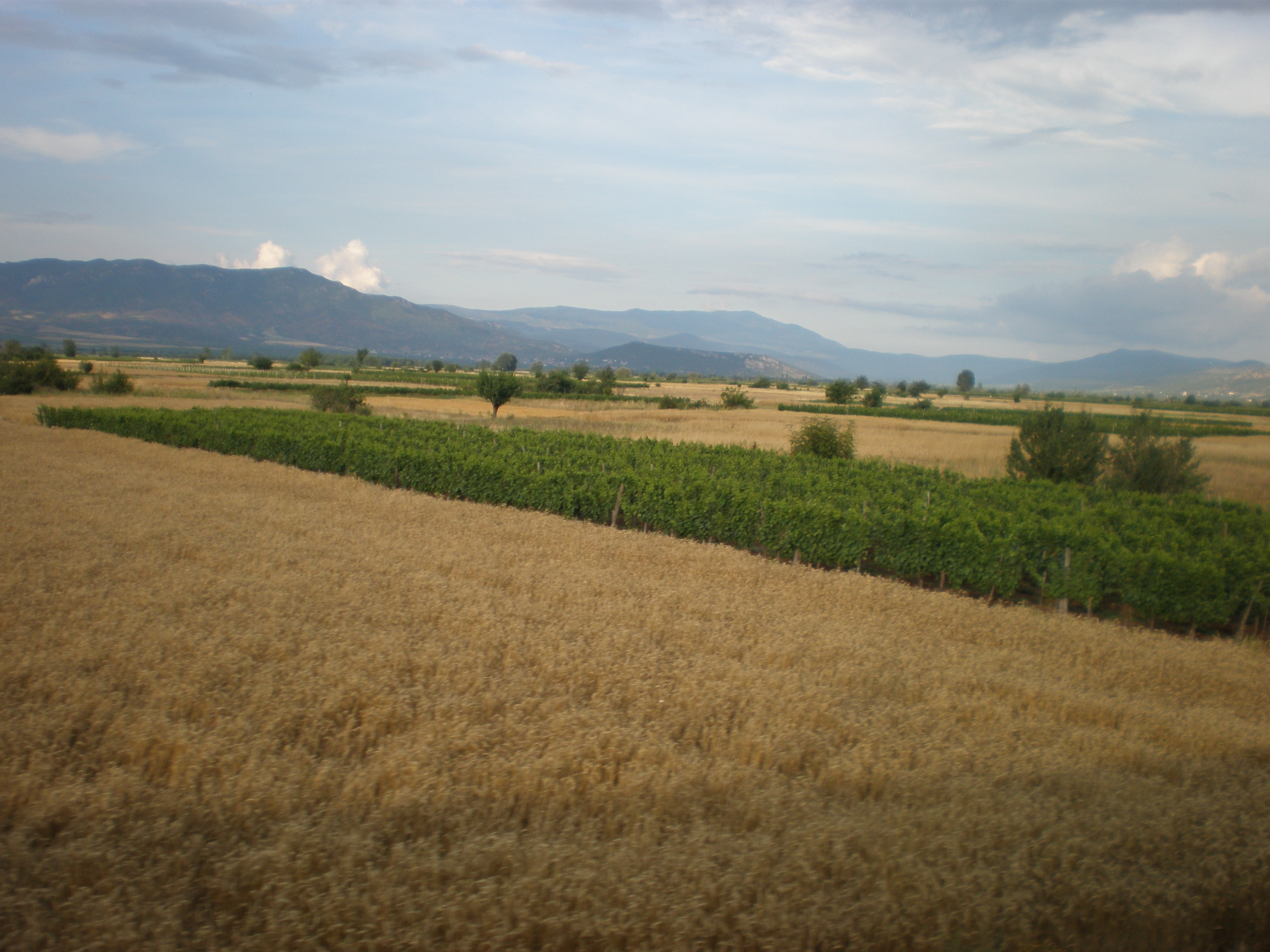 Wheat fields and vineyards near Gevgelija, Macedonia